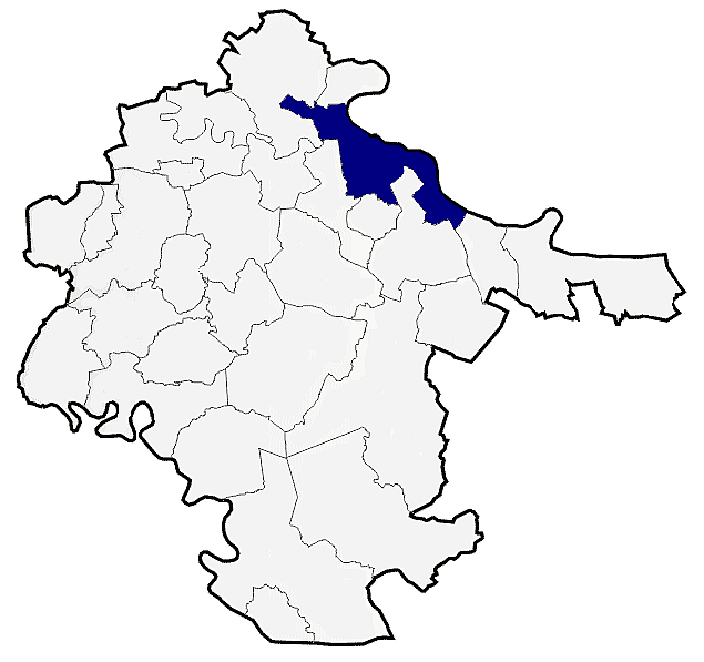 Self-made map of Vukovar municipality within Vukovar-Syrmia County.